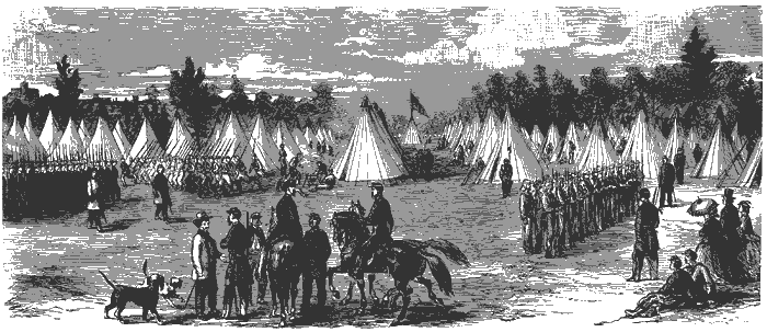 Encampment of Colonel Ellsworth's New York Fire Zuoaves, on the heights opposite the Navy Yard, Washington, D. C. This famous body of fiery and active soldiers at length got free from the trammels and confinement of their city quarters, a change which was both pleasant and beneficial to them. They were encamped on the heights opposite the Navy Yard, Washington, D. C., and, as our sketch will show, were most comfortably situated. Colonel Ellsworth was indefatigable in drilling his regiment, and his men most willingly seconded his efforts by close attention to duty and alacrity in the performance of all the details of camp life. The Zuoaves proved to be one of the most effective regiments in the field; they rendered efficent service in building breastworks on the outskirts of Alexandria, thereby preyenting the possibility of a surprise from the enemy, and distinguished themselves at the Battle of Bull Run in their successful assault on a confederate battery at the point of the bayonet.